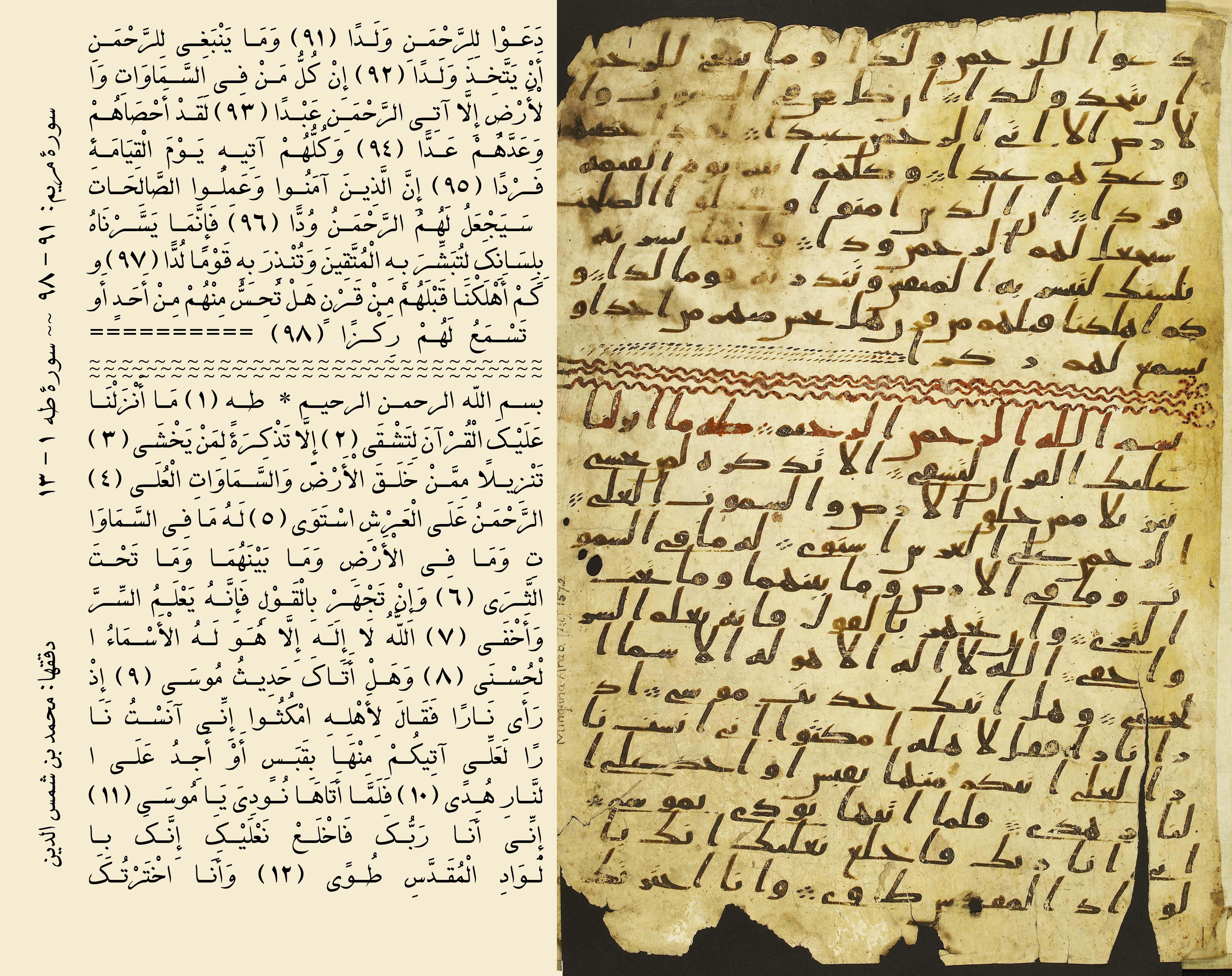 Comparing between folio 2 recto of the Birmingham Quran manuscript & the current Quran (21 century printing.